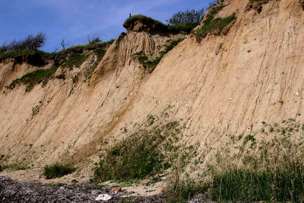 Rain water erosion on a cliff near Ebeltoft, Jutland